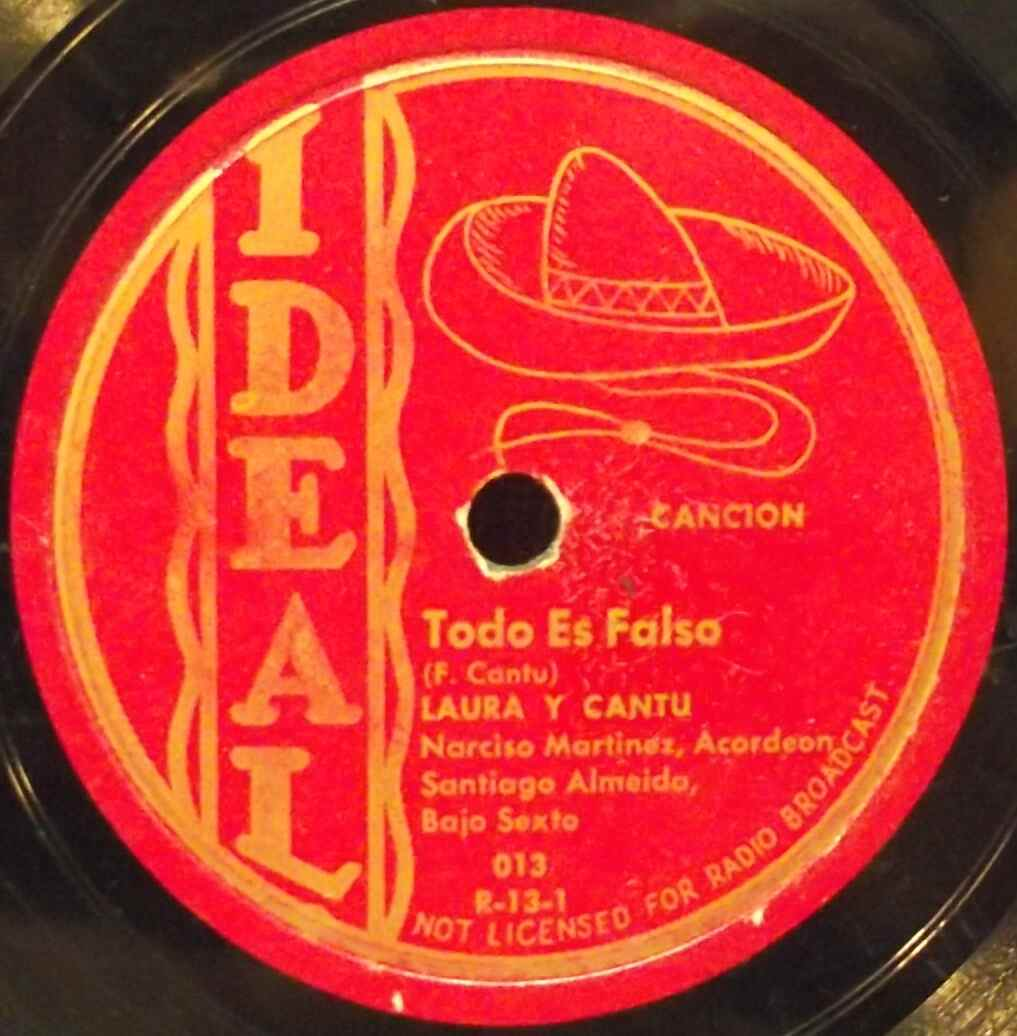 Record label from Ideal 013, 78rpm. "Todo Es Falso" by Laura y Cantu. Photo taken of disc in personal collection. Date is approximately 1949.